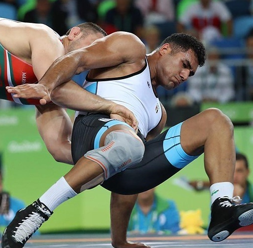 Wrestling at the 2016 Summer Olympics – Men's freestyle 125 kg